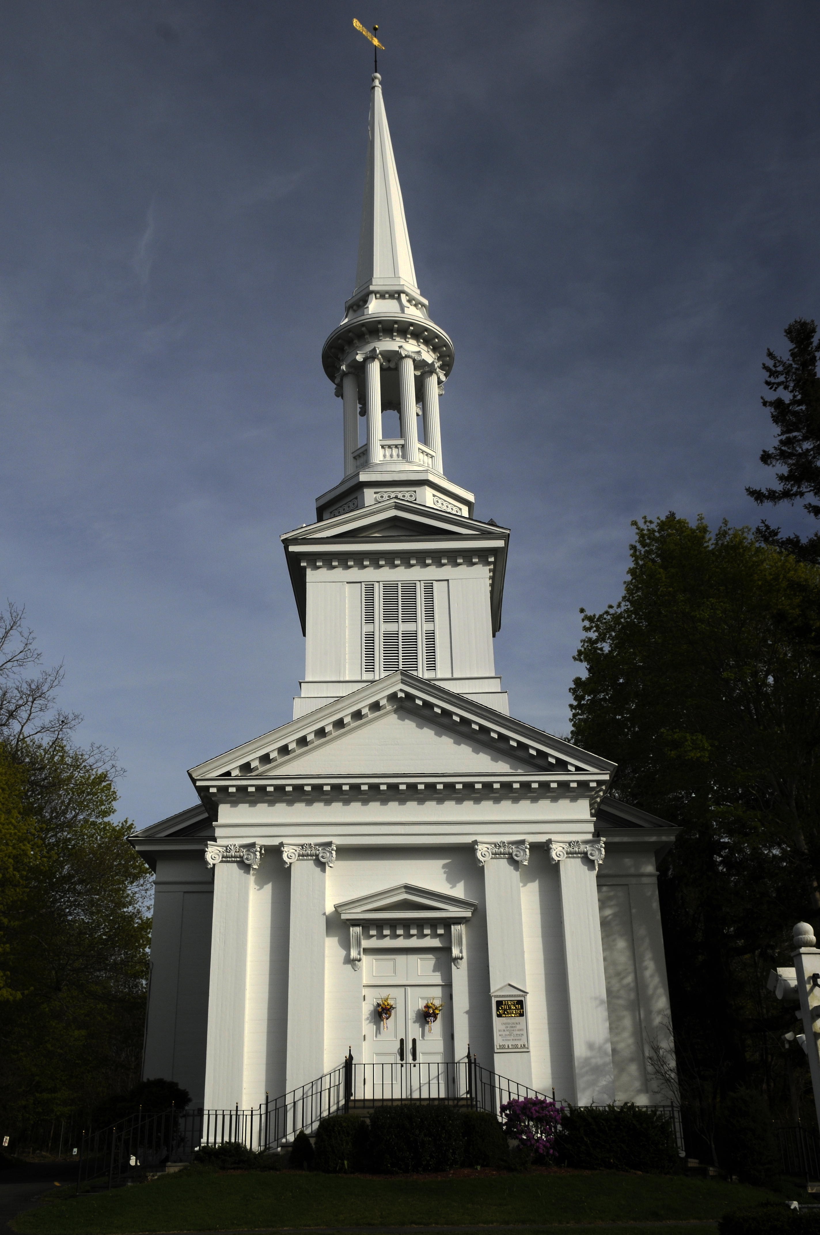 Image of First Church in Sandwich, MA